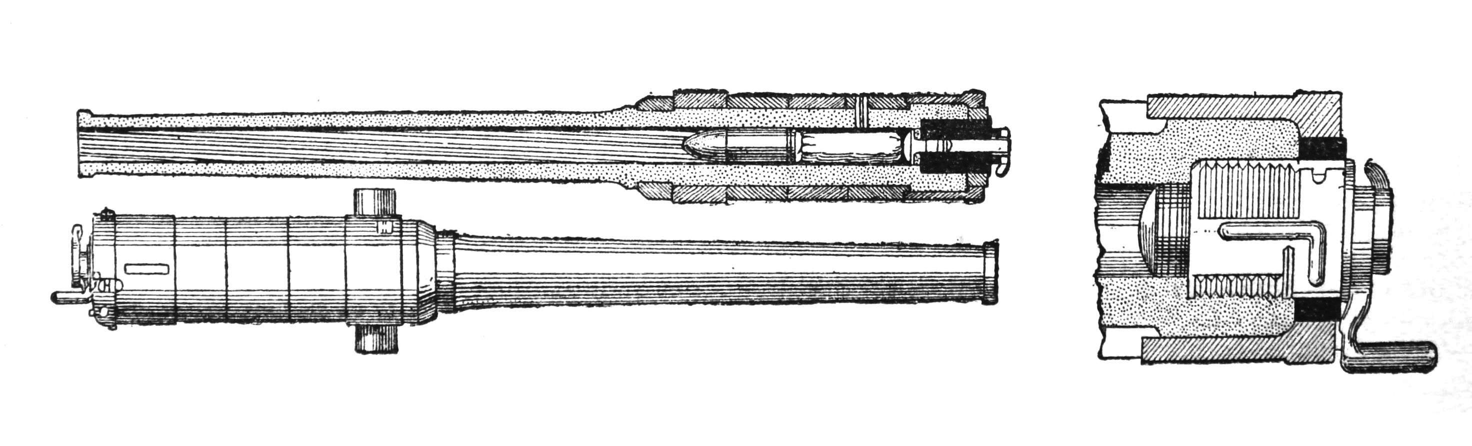 Diagrams of the Lahitolle 95mm cannon.